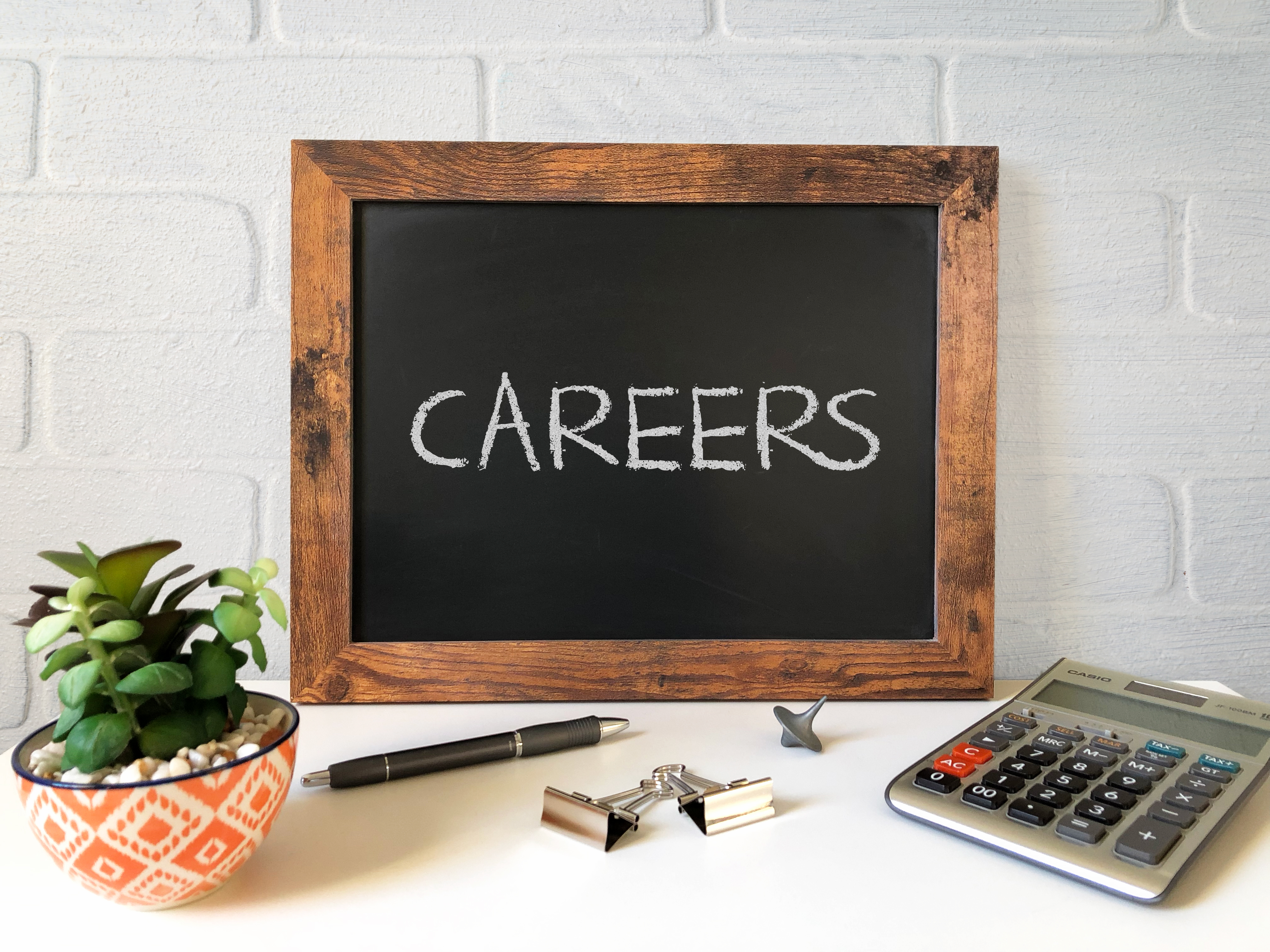 Blackboard that says "Careers"